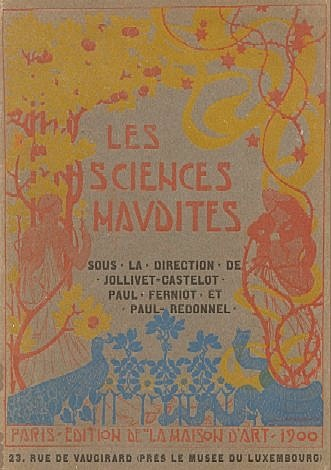 Les Sciences maudites by Jollivet-Castelot, Paul Ferniot and Paul Redonnel, published in Paris, La Maison d'art. Cover design by Louis-Gaston Payret-Dortail.